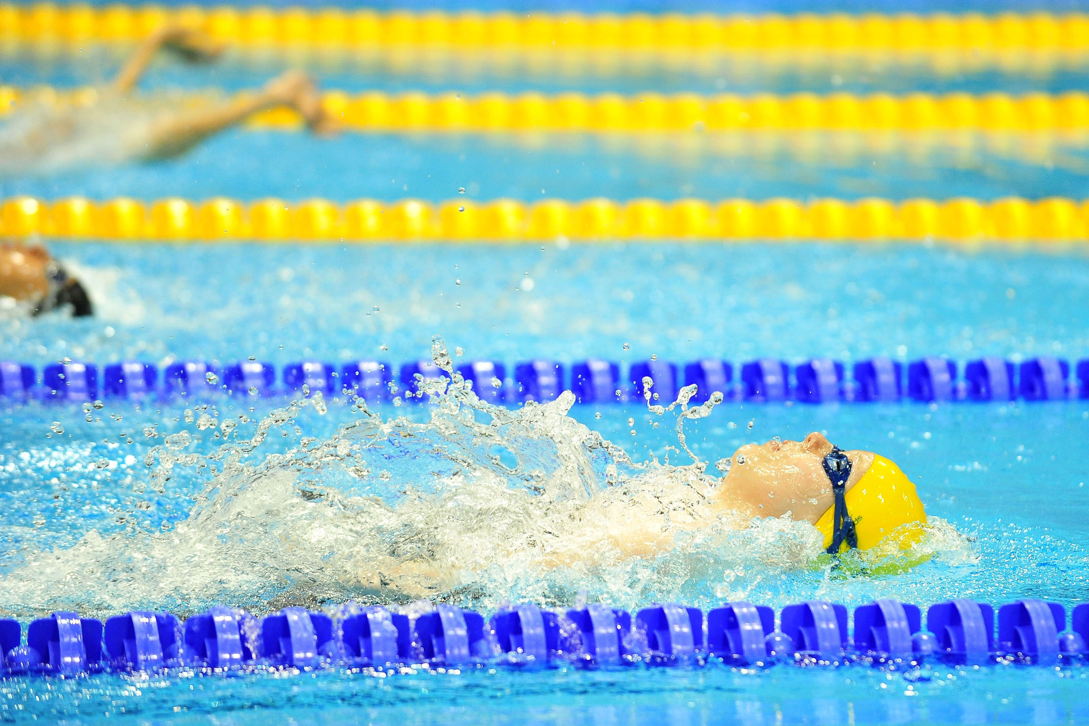 Photograph of Australian Paralympic team member Esther Overton at the 2012 Summer Paralympic Games in London